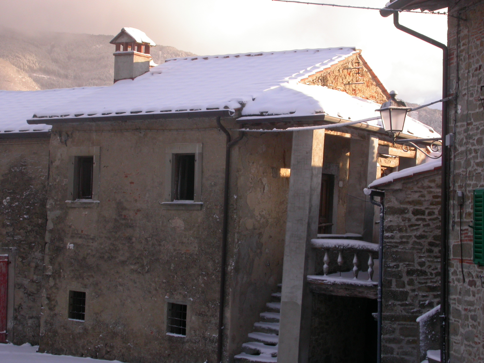 Canonica di Faeto con neve